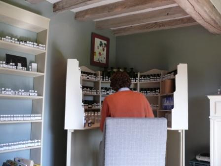 Perfumer's organ